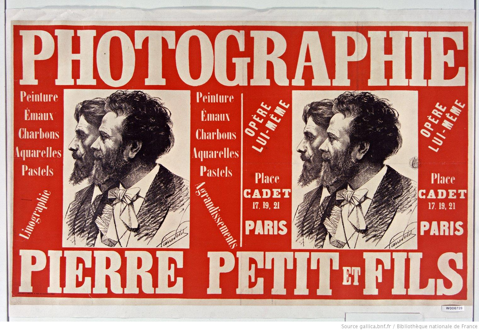 Poster advertising the services of Pierre Petit and son